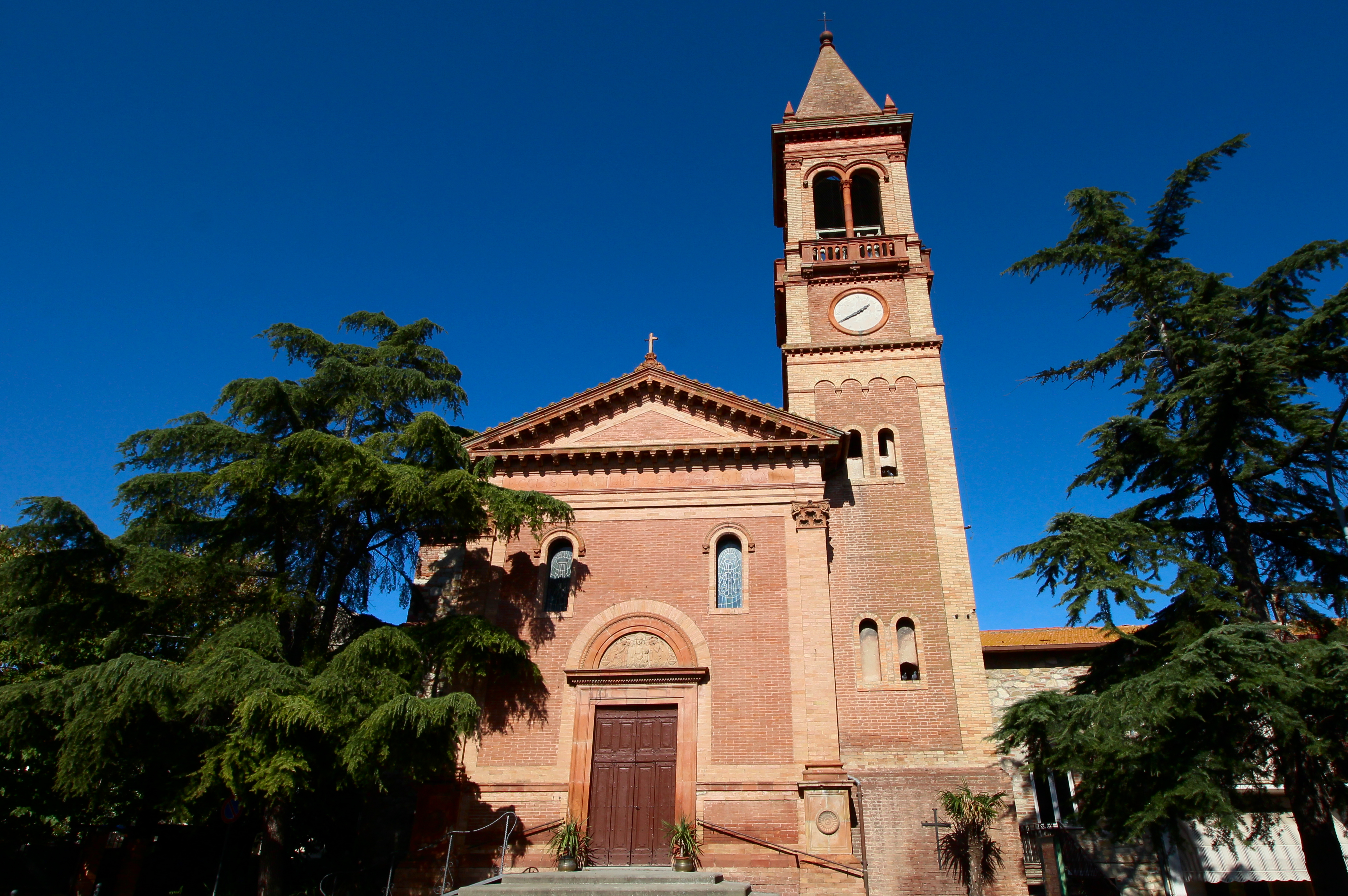 Church Santi Filippo e Giacomo, Panicarola, hamlet of Castiglione del Lago, Province of Perugia, Umbria, Italy